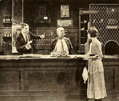 Still from the American comedy film Bill Henry (1919) with Charles Ray, Bert Woodruff, and Edith Roberts, on page 1439 of the August 16, 1919 Motion Picture News.